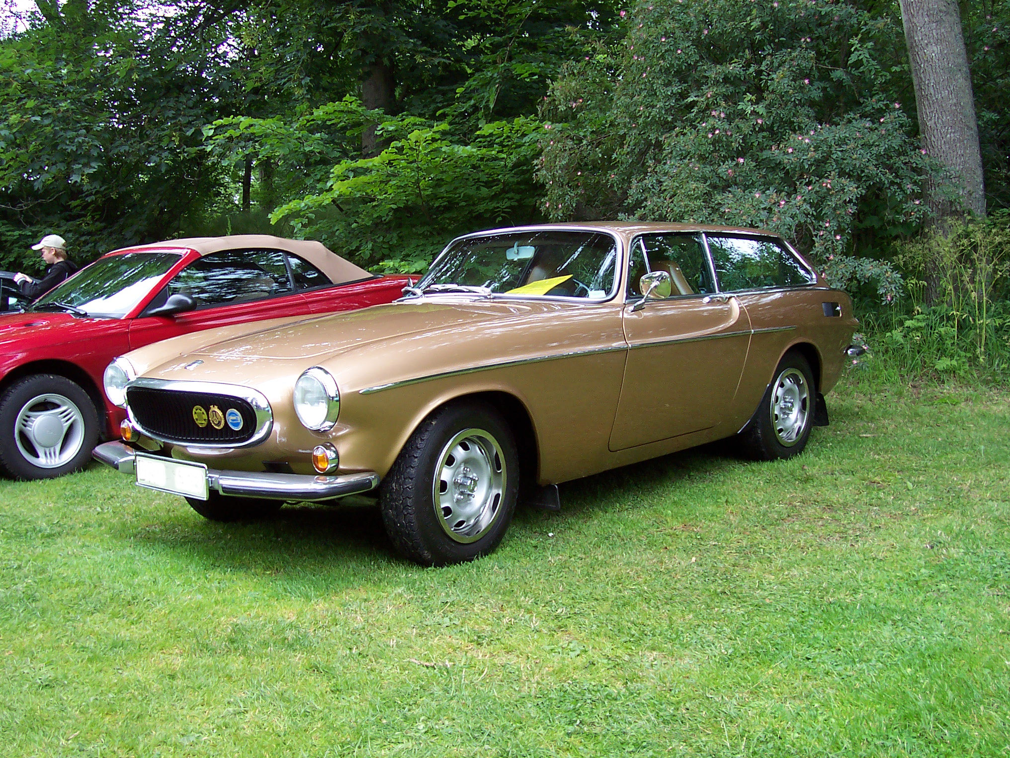 The Volvo P1800ES, adapted to an estate by Jan Wilsgaard.